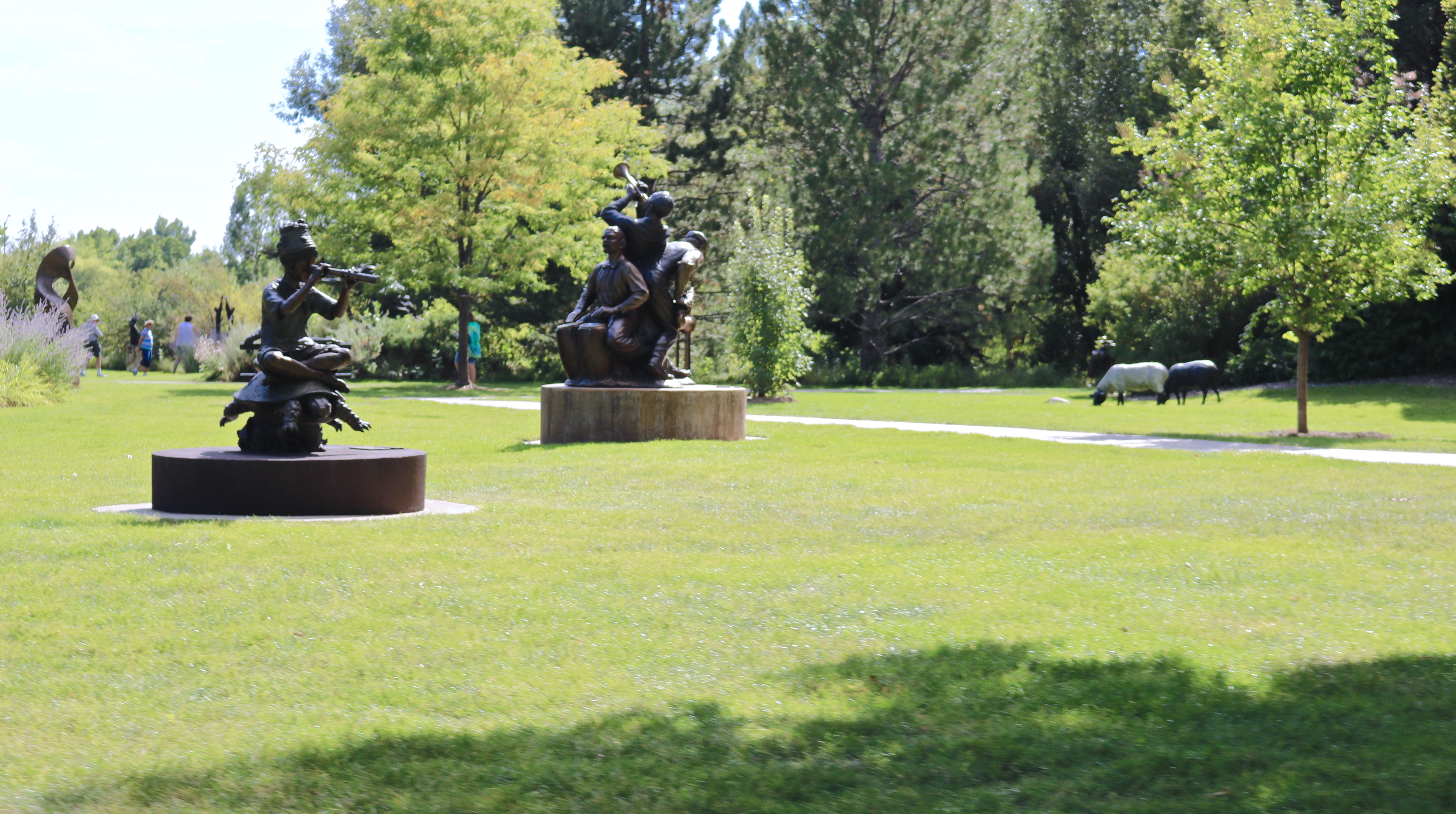 Images taken of Benson Park Sculpture Garden, Benson Sculpture Garden